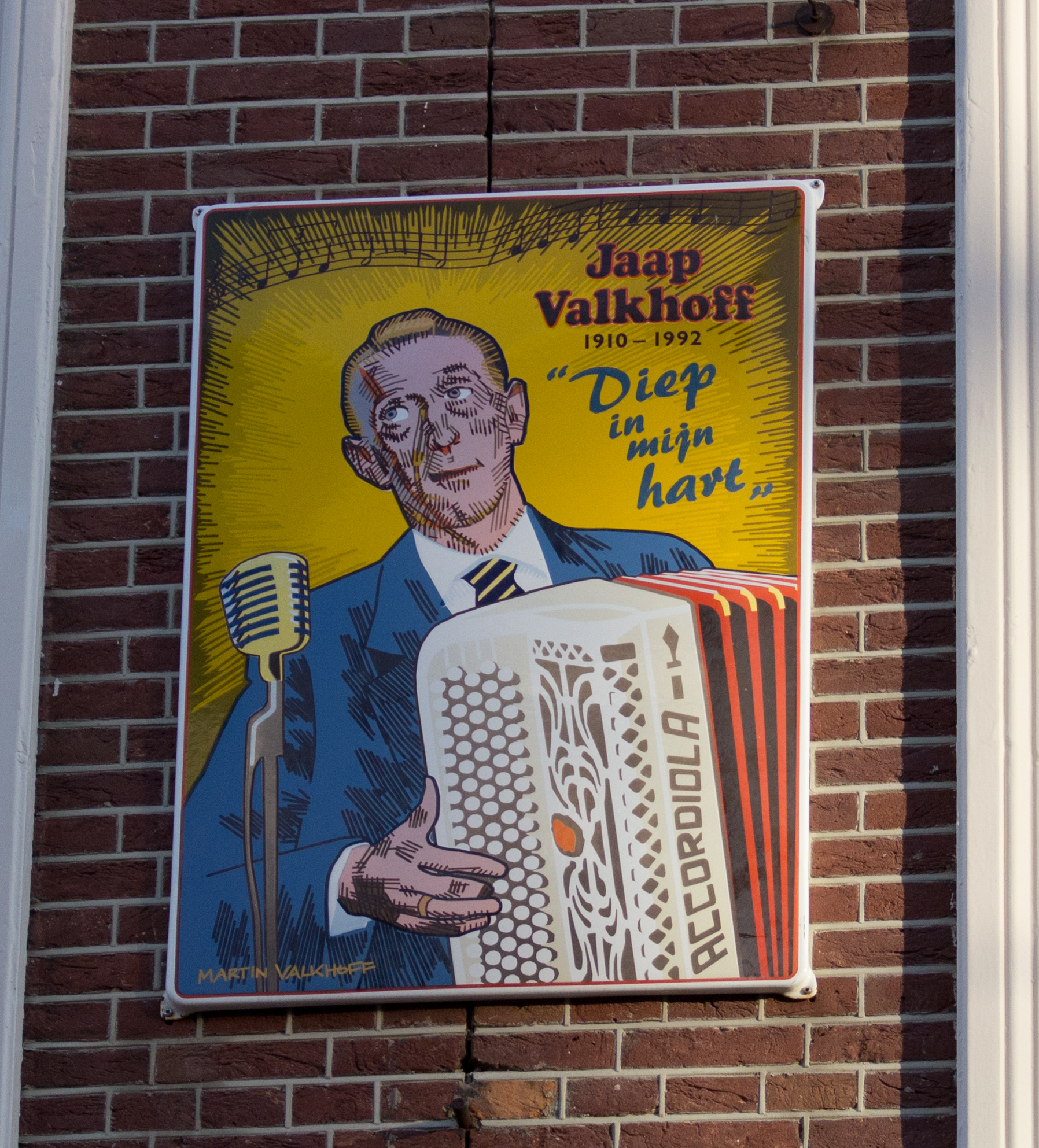 Jaap Valkhoff by Martin Valkhoff